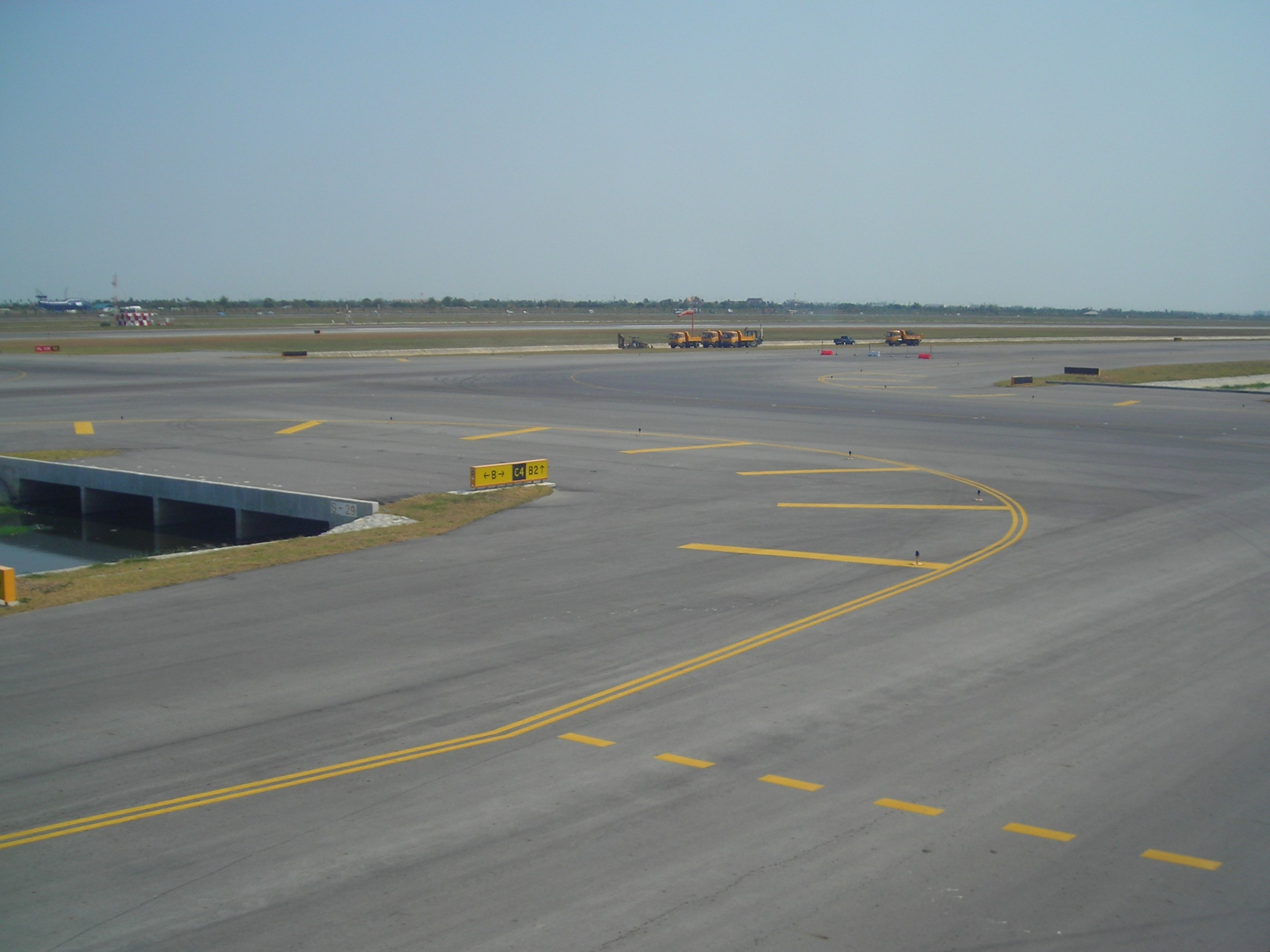 C4 taxiway with road improvement construction vehicles at Suvarnabhumi International Airport in January 2007, note also the culvert.